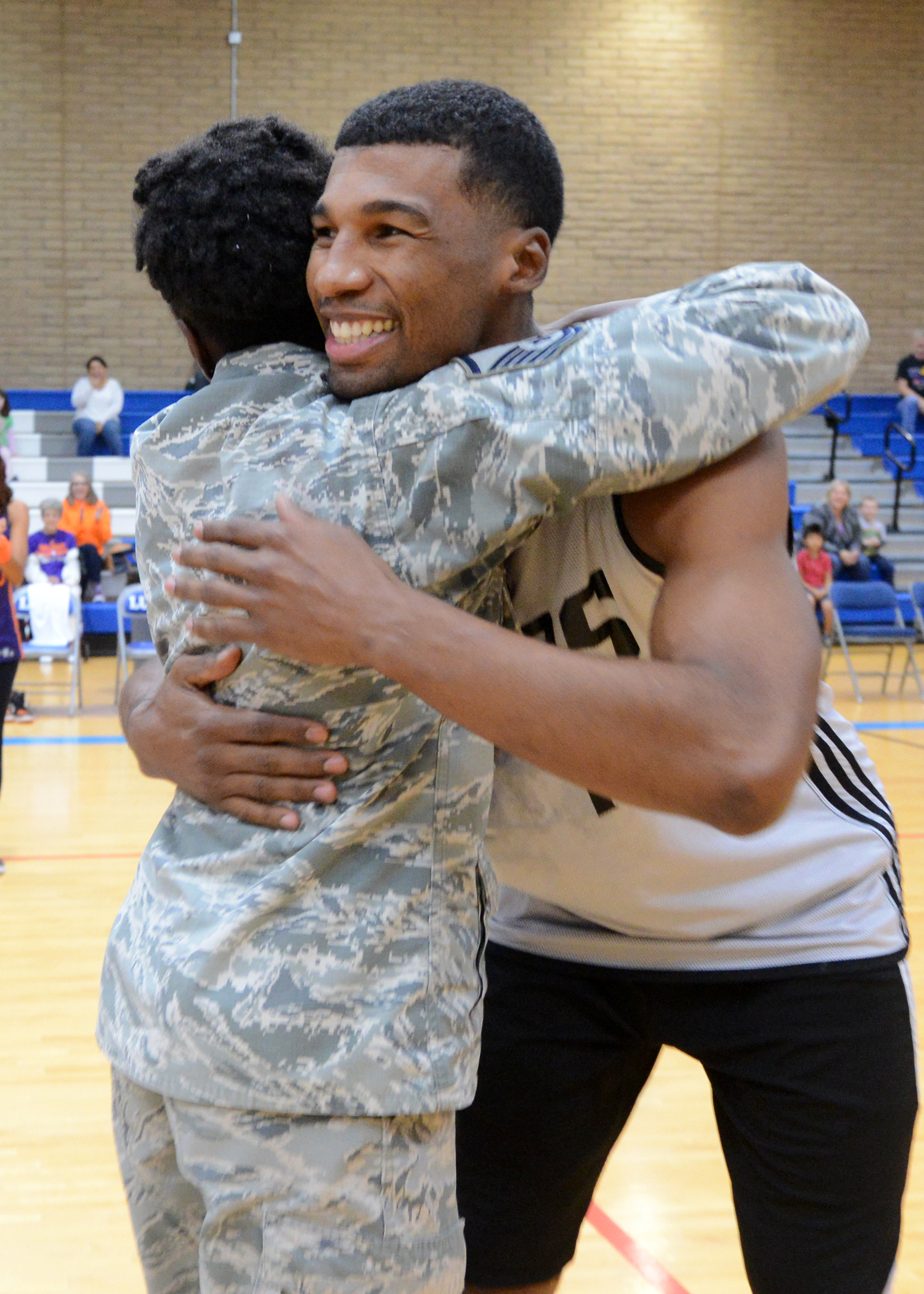 Ronnie Price, Phoenix Suns guard, hugs Master Sgt. Fencl, 56th Force Support Squadron superintendent, after winning her a signed jersey Nov. 5, 2015, on Luke Air Force Base, Ariz. Players were matched to Airmen and would have to make a shot from half court to win the Airmen a personally signed jersey. (U.S. Air Force photo by Staff Sgt. Marcy Copeland)